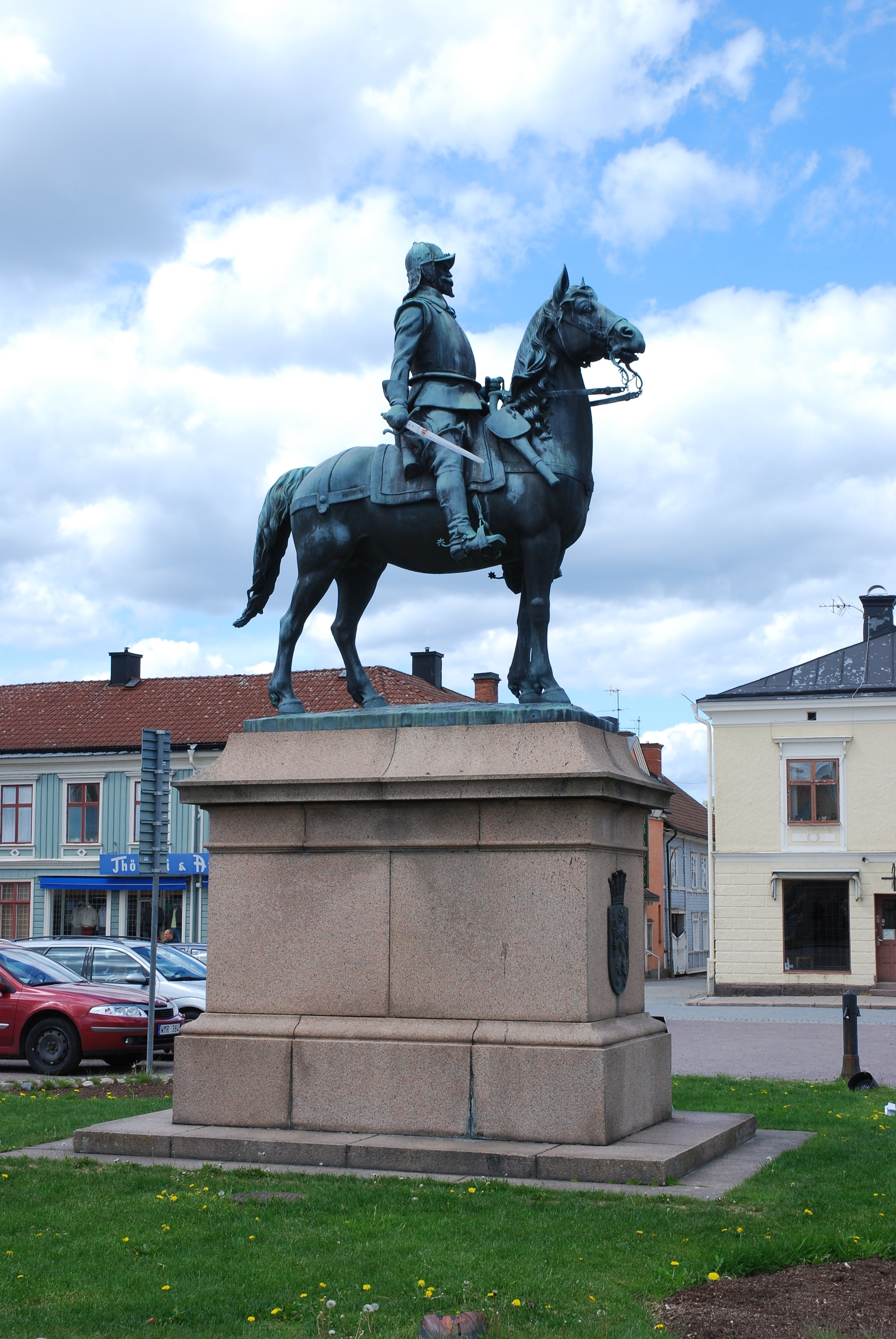 Alfred Ohlson´s Smålandsryttaren , Main square at Eksjö, Sweden